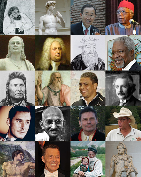 Collage of 20 men